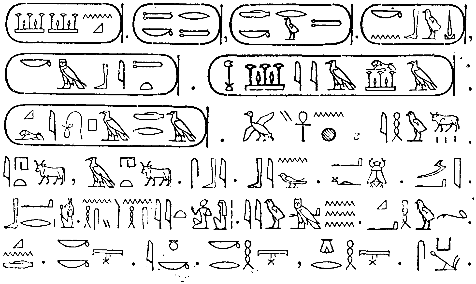 Egyptian hieroglyphs, inside the frames are cartouches with the names of regents, by Lepsius